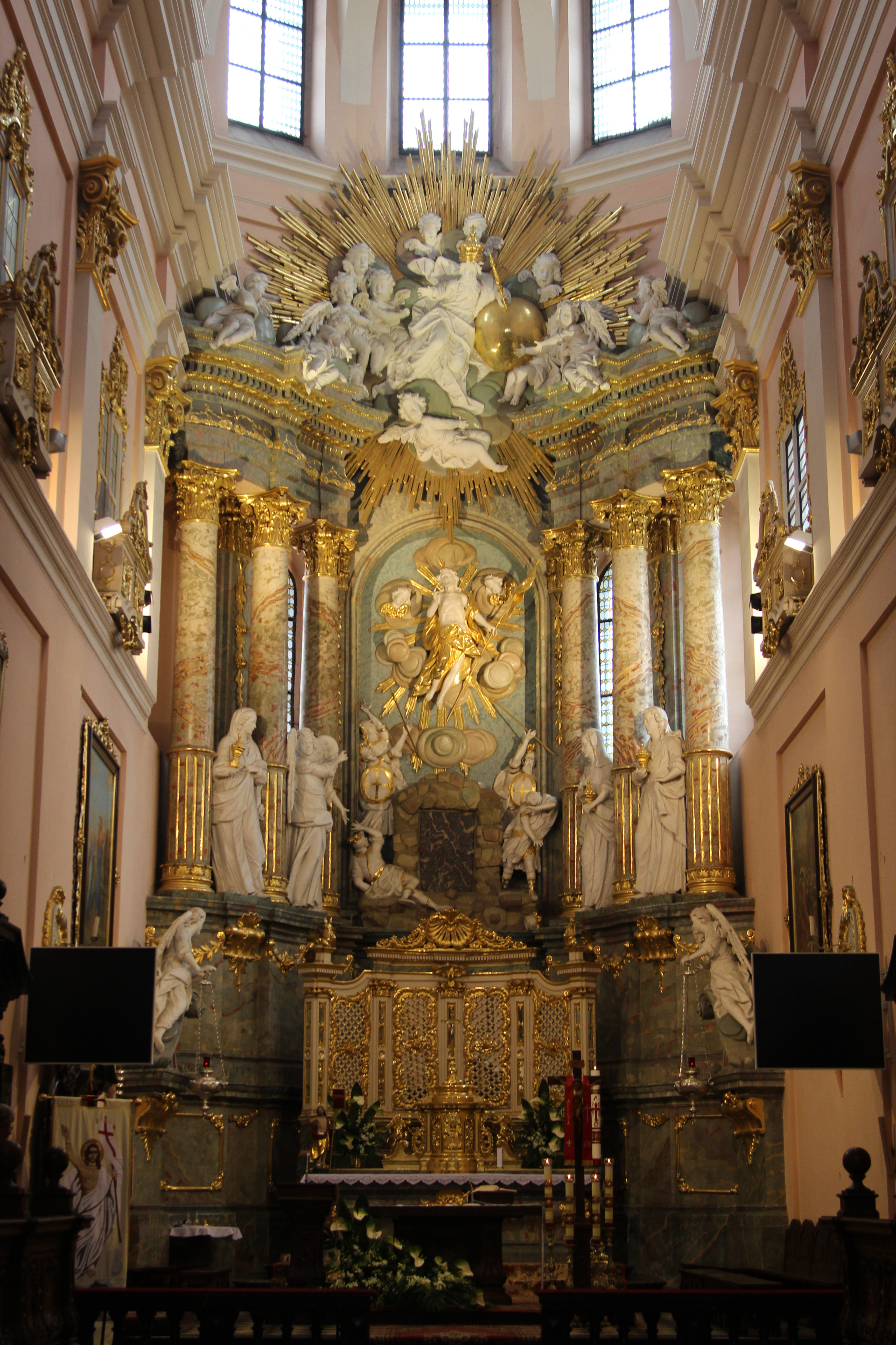 Basilica of the Holy Sepulchre in Miechów